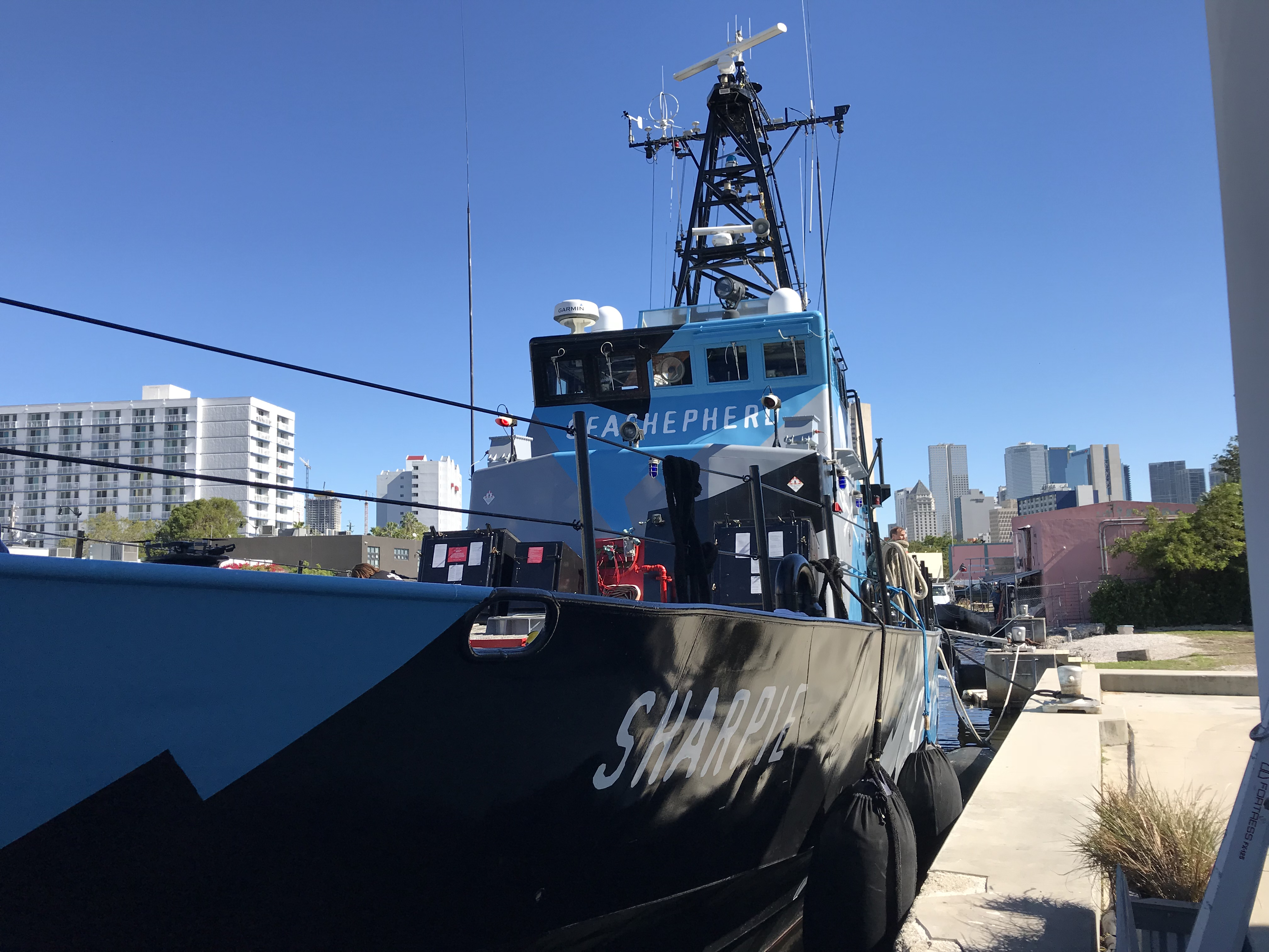 Photo of MVSharpie